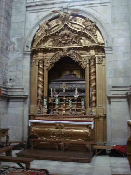 Tomb of blessed Sancha, infant of Portugal, at Lorvao monastery, s. XVIII